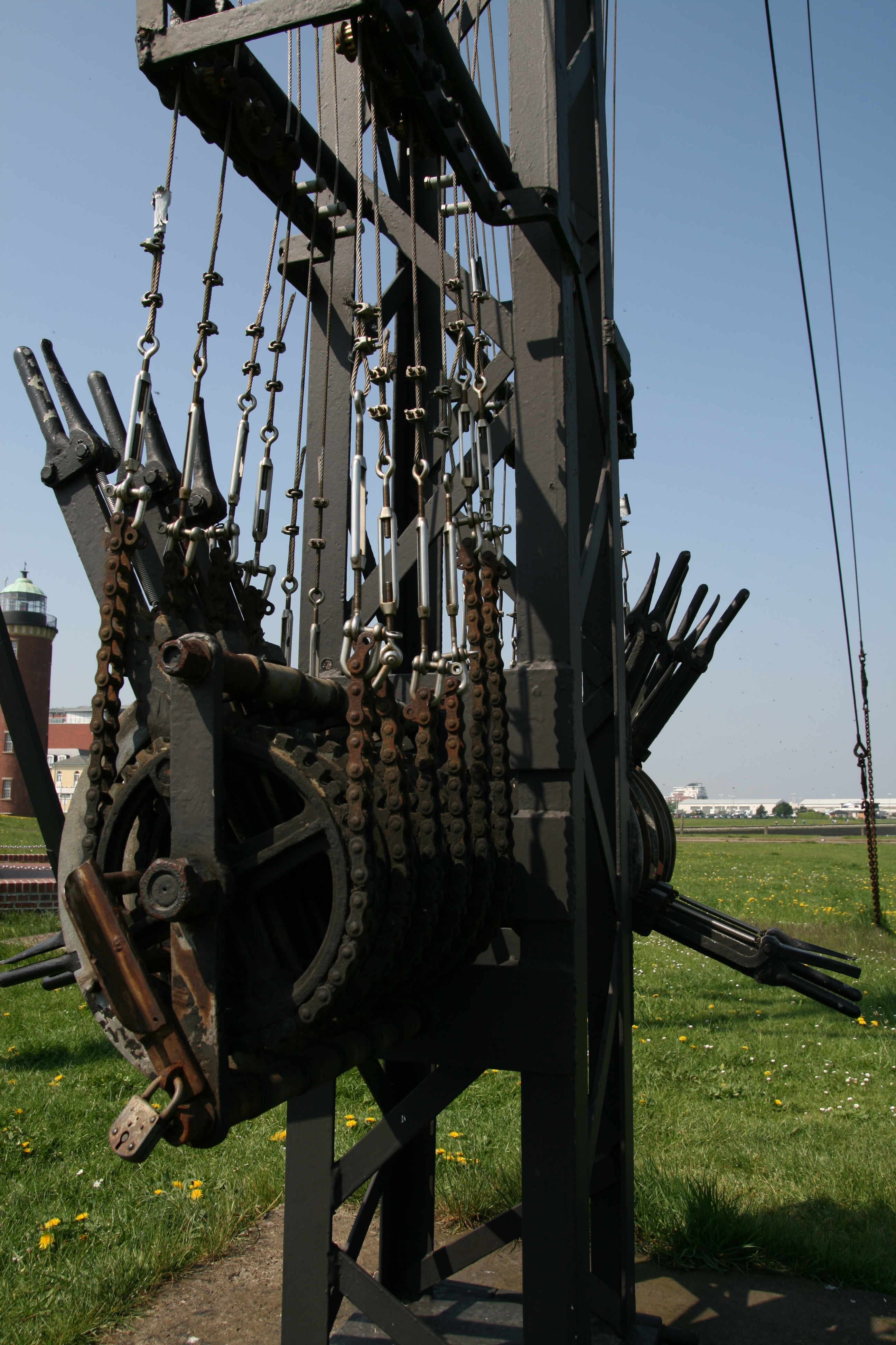 Wind-Semaphore in Cuxhaven, Germany: Handles